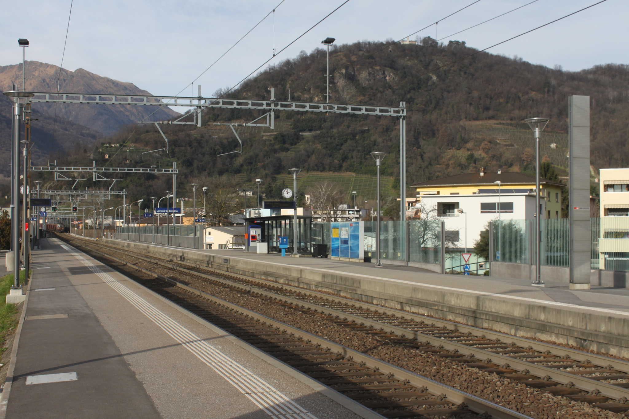 Lamone-Cadempino train station.